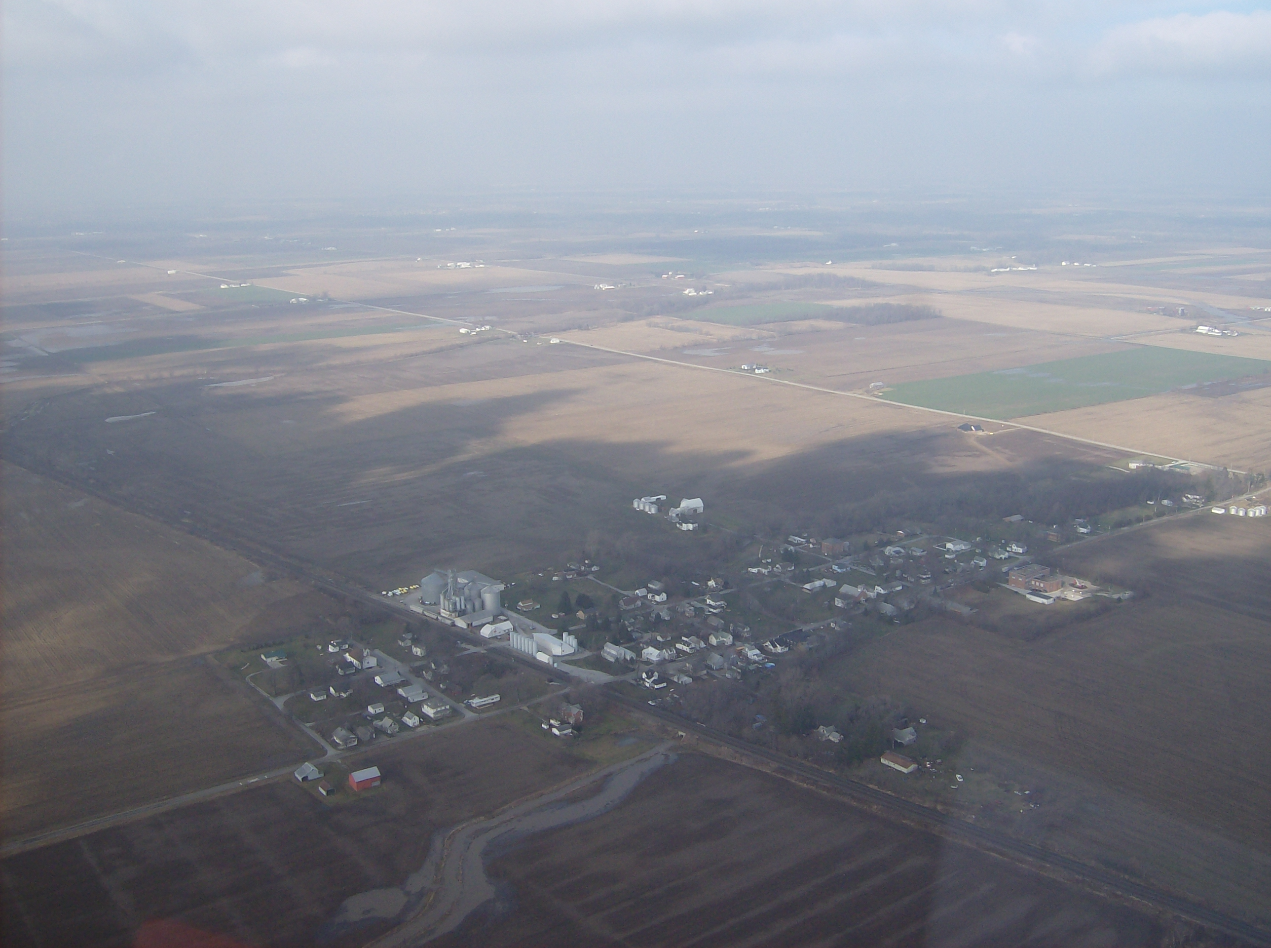 Aerial view of Pemberton, an unincorporated community in eastern Perry Township, Shelby County, Ohio, United States, taken from Diamond Eclipse light airplane. Picture taken from an altitude of 2,200 feet MSL at an bearing of approximately 280º.